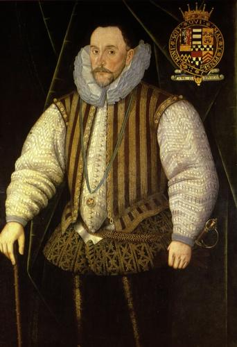 Henry Herbert, 2nd Earl of Pembroke (1534-1601). The escutcheon of six quarters shows the following arms: 1: Per pale azure and gules, three lions rampant argent a bordure compony (Herbert, differenced) 2: Argent, two bars azure a bordure engrailed sable (Parr) 3: Or, three water-bougets sable (Ross of Kendal, a Parr heiress); 4: Azure, three chevrons interlaced in base or a chief of the last (FitzHugh, a Parr heiress); 5: Vair, a fesse gules (Marmion, a Parr heiress); 6: Or, three chevronels gules a chief vair (St. Quentin) The arms of FitzHugh and St Quentin appear on the font of Mapelton Church, Holderness (See The coats of arms of the nobility and gentry of Yorkshire by Turner, J. Horsfall, 1911, p.185[1]).